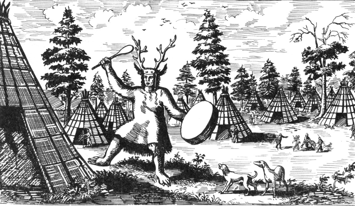 Tungus shaman. Drawing XVII c.